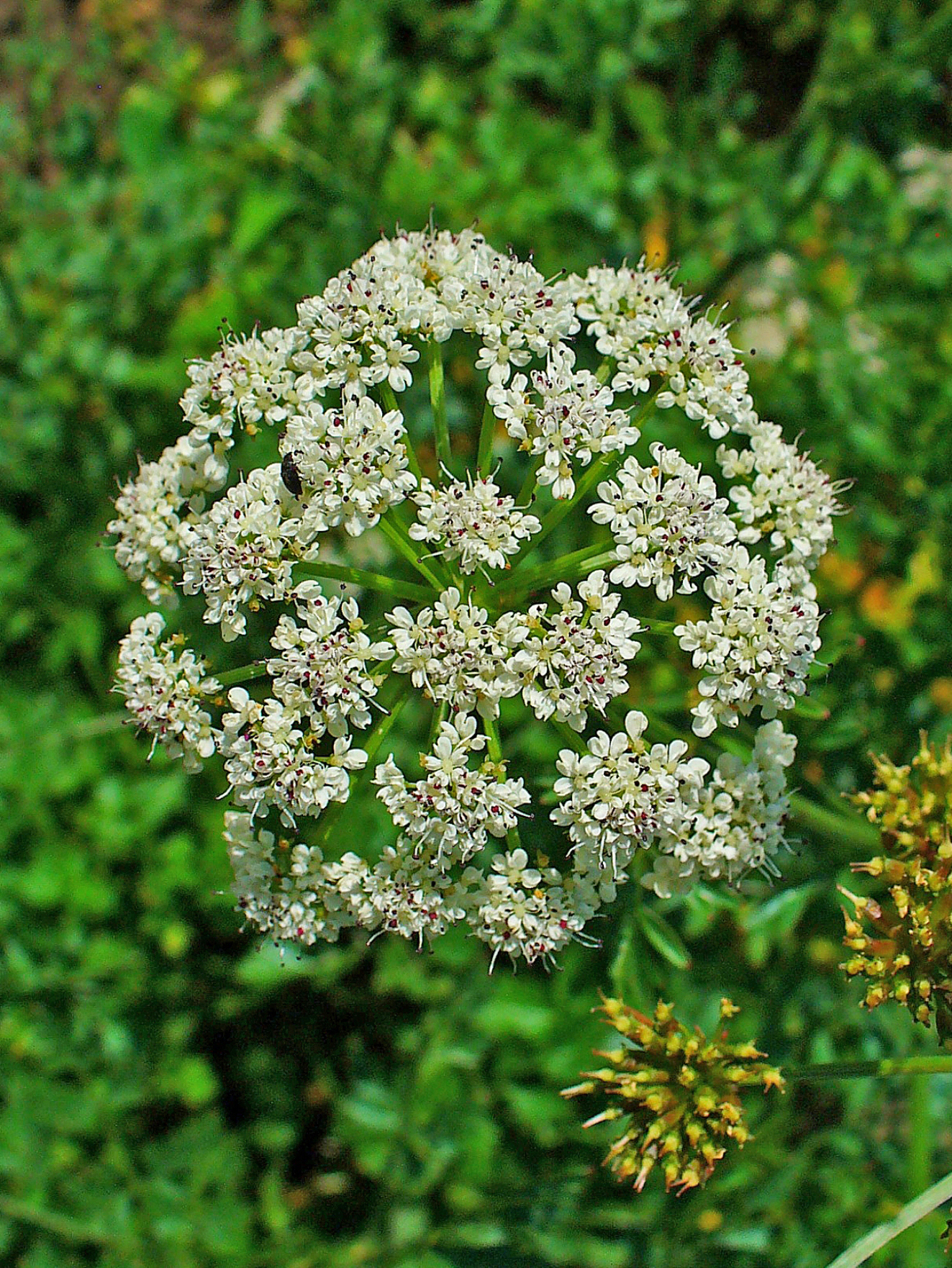 Hemlock Water-dropwort; inflorescence; Stutensee, Germany.